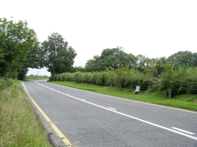 Kentstown Road Memorial Memorial for five schoolgirls who died at this spot in a bus crash in May 2005. 100m to the east is another for a woman killed in February 2007.